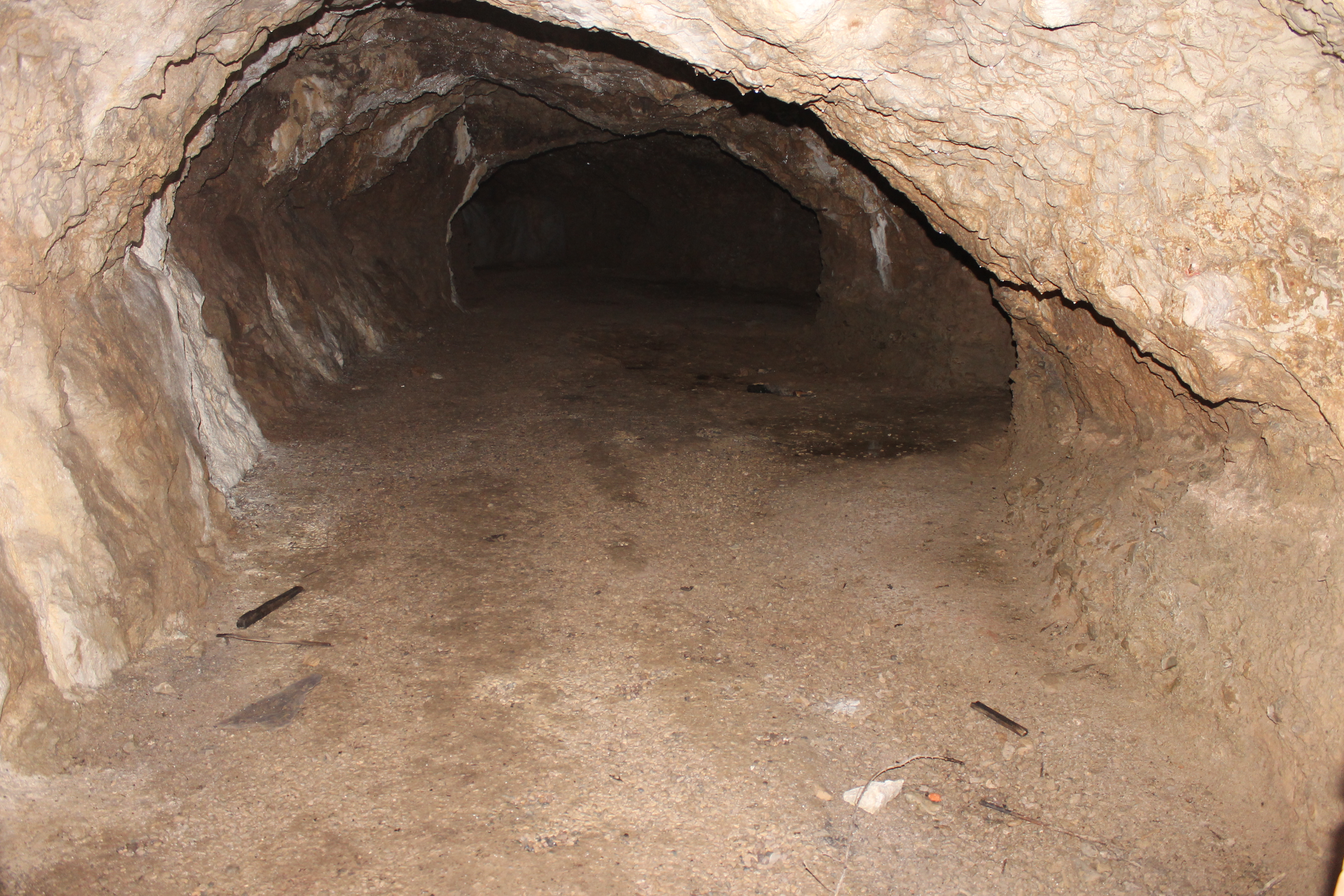 The Bontnewydd Cave. The Bontnewydd Palaeolithic site is an archaeological site in Wales which has yielded the earliest known remains of Neanderthals in the region. It is located on the River Elwy, near the hamlet of Bont-newydd, Conwy. Teeth and part of a jawbone excavated in the cave in 1981 were dated to 230,000 years ago. The bone is from a Neanderthal boy approximately eleven years old.